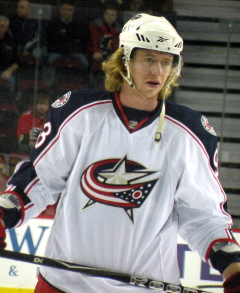 Columbus Blue Jackets forward Jakub Voracek prior to a National Hockey League game against the Calgary Flames, in Calgary.